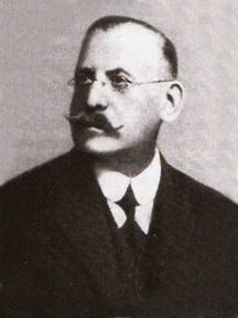 Hungarian ethnograf Munkacsi Bernat